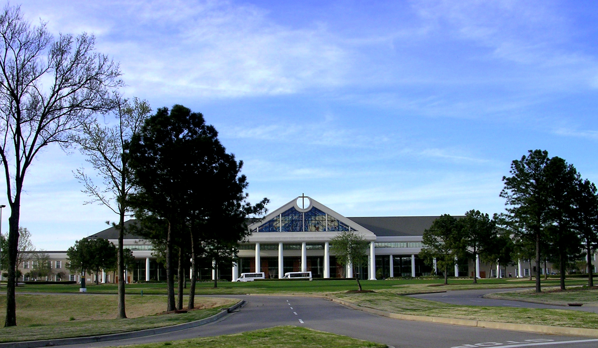 Frontal view. This image is a colour-enhanced version of this file. It was modified in Picasa 2 using the graduated tint and saturation feature. Photo was also modified slightly under "Tuning".